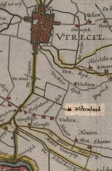 Location of the Wiltenburg, from the Atlas of Blaeu